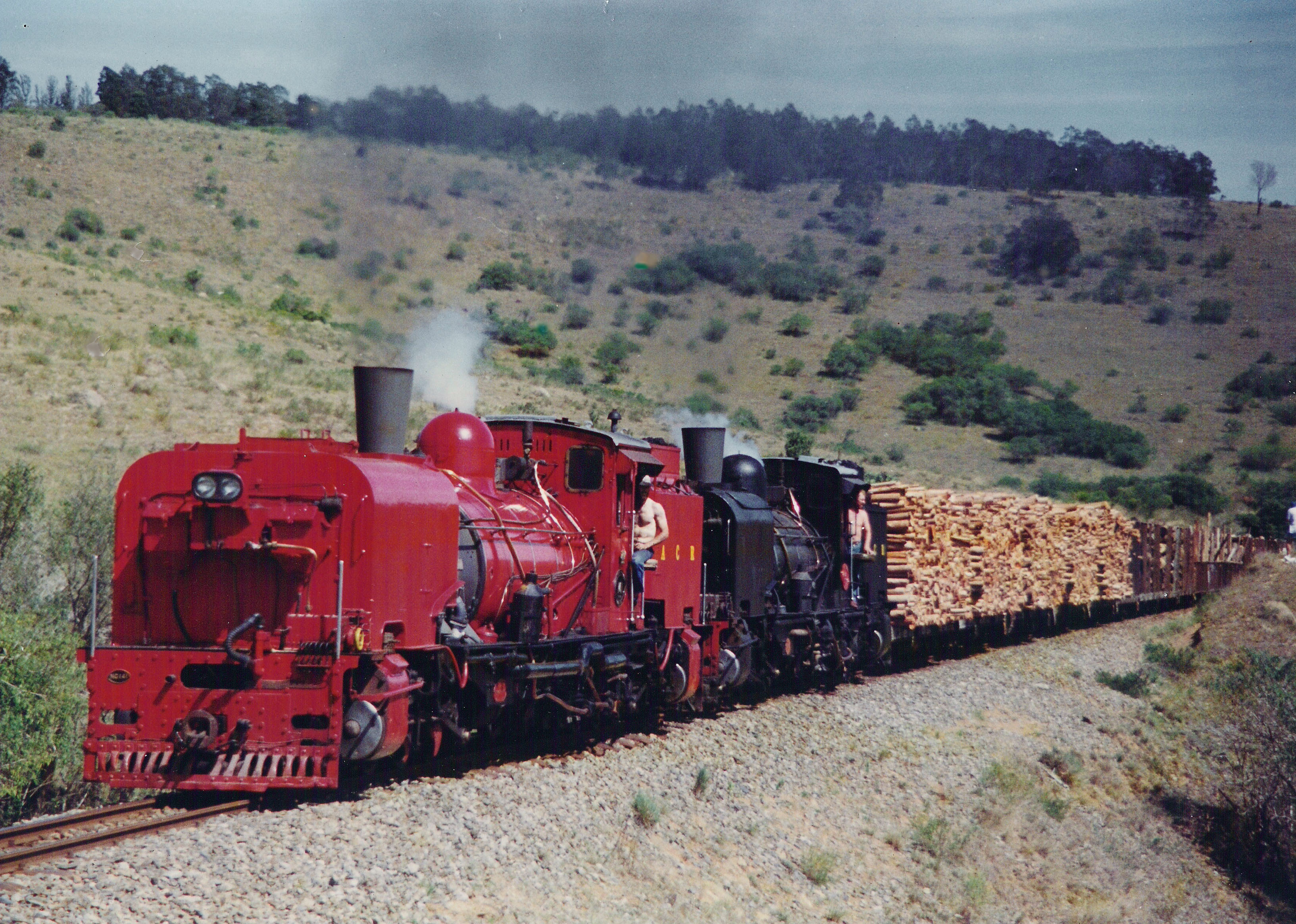 SAR Class NG G16A 141 & 155 (2-6-2+2-6-2) This double header shot of 141 and 155 was a special run in 1992 after the diesels arrived, the so called "Last steam freight from Harding" with the locos turned on the newly reinstalled triangle at Harding (for diesel wheel wear equalising) so they faced chimney first to Port Shepstone. It was taken on the climb from Bongwana to Nqabeni. Note the smokeless exhausts.